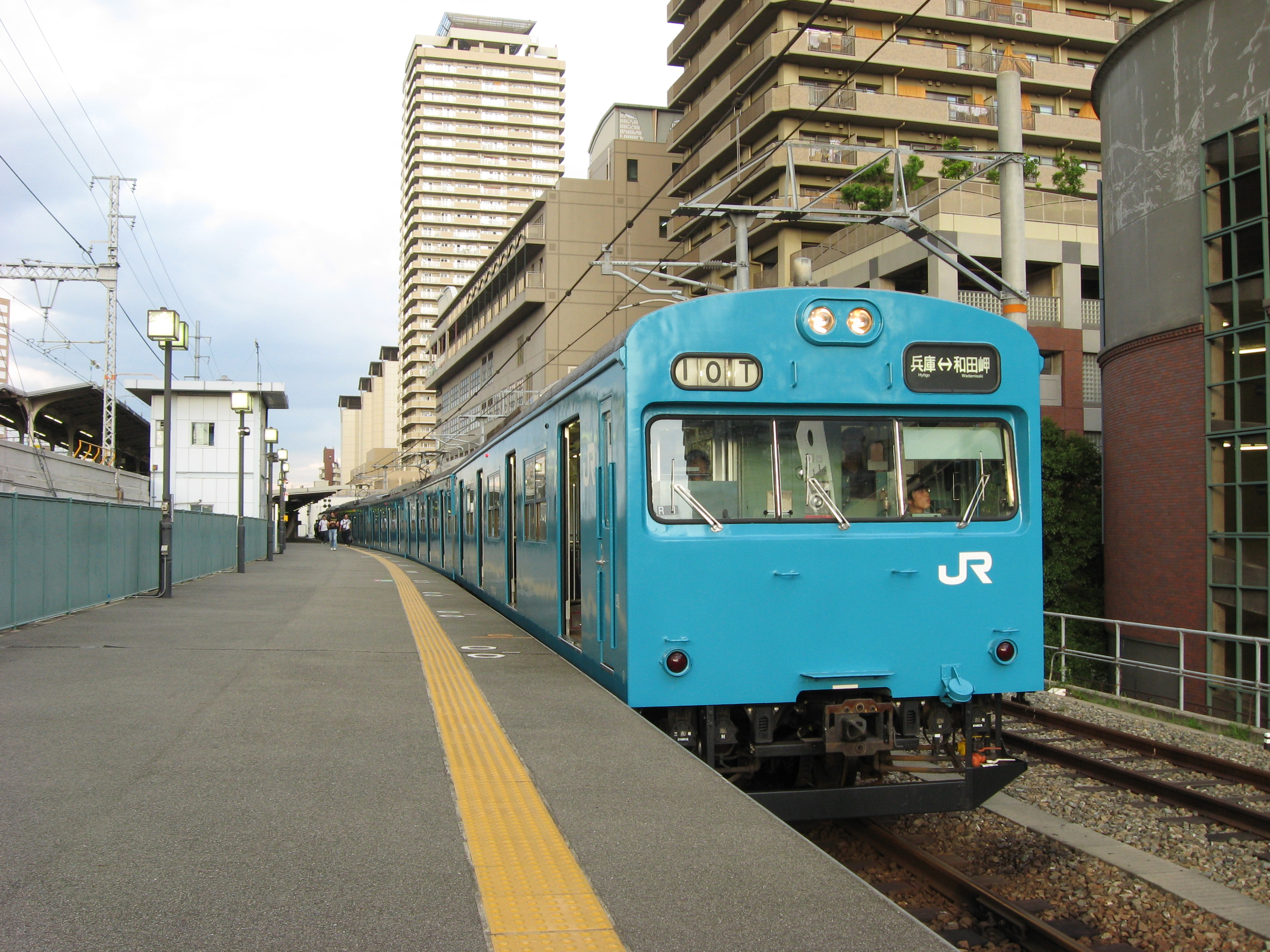 JR West Hyogo Station Wadamisaki Line Platform